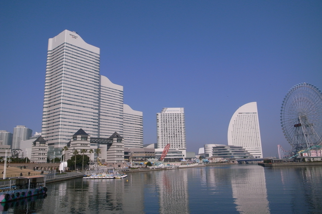 Minatomirai 21, Yokohama, Kanagawa, Japan.